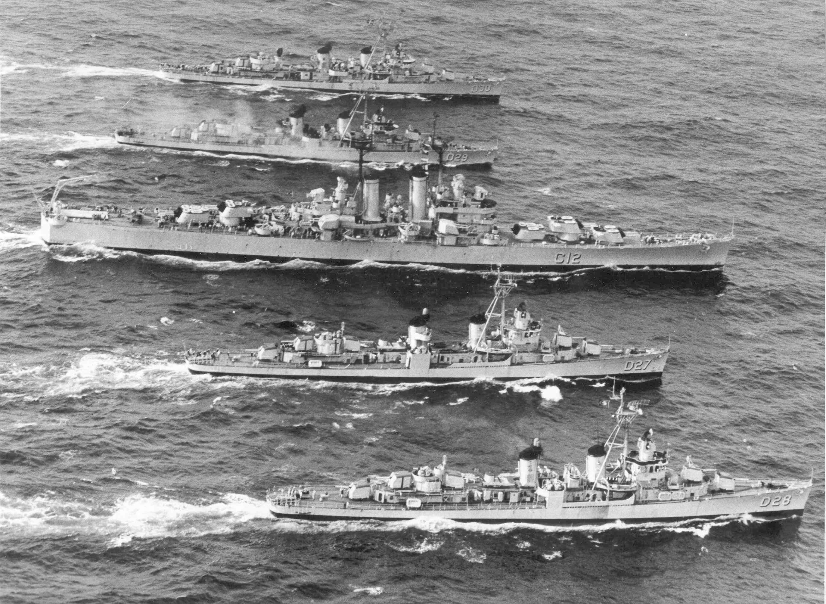 Brazilian warships underway, heading northwards in formation, during the so-called "Lobster War" with France, in 1961. Visible are (top to bottom): destroyer Pernambuco (D30), ex-USS Hailey (DD-556); destroyer Paraná (D29), ex-USS Cushing (DD-797); light cruiser Tamandaré (C12), ex-USS St. Louis (CL-49); destroyer Pará (D27), ex-USS Guest (DD-472); destroyer Paraiba (D28), ex-USS Bennett (DD-473).